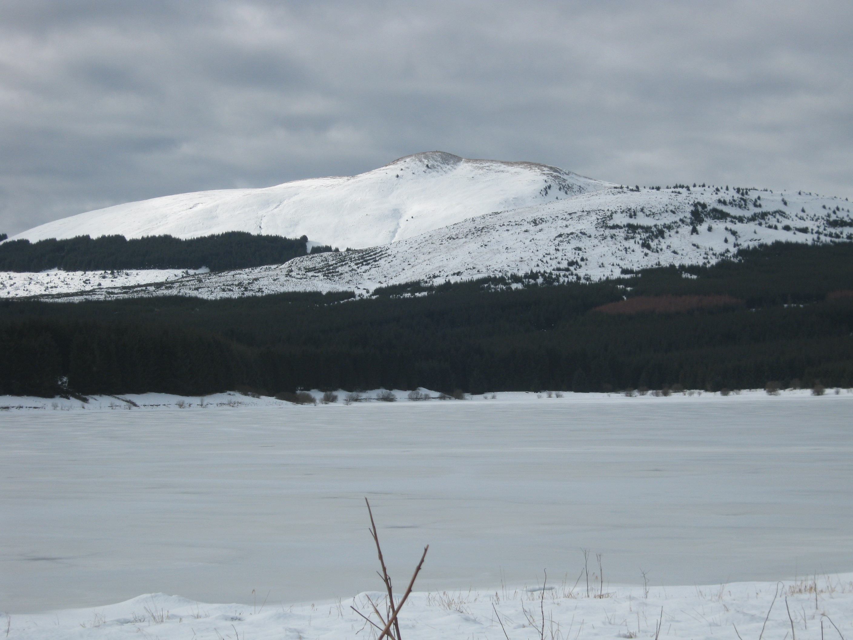 View of Meikle Bin looking across frozen Strathcarron Reservoir